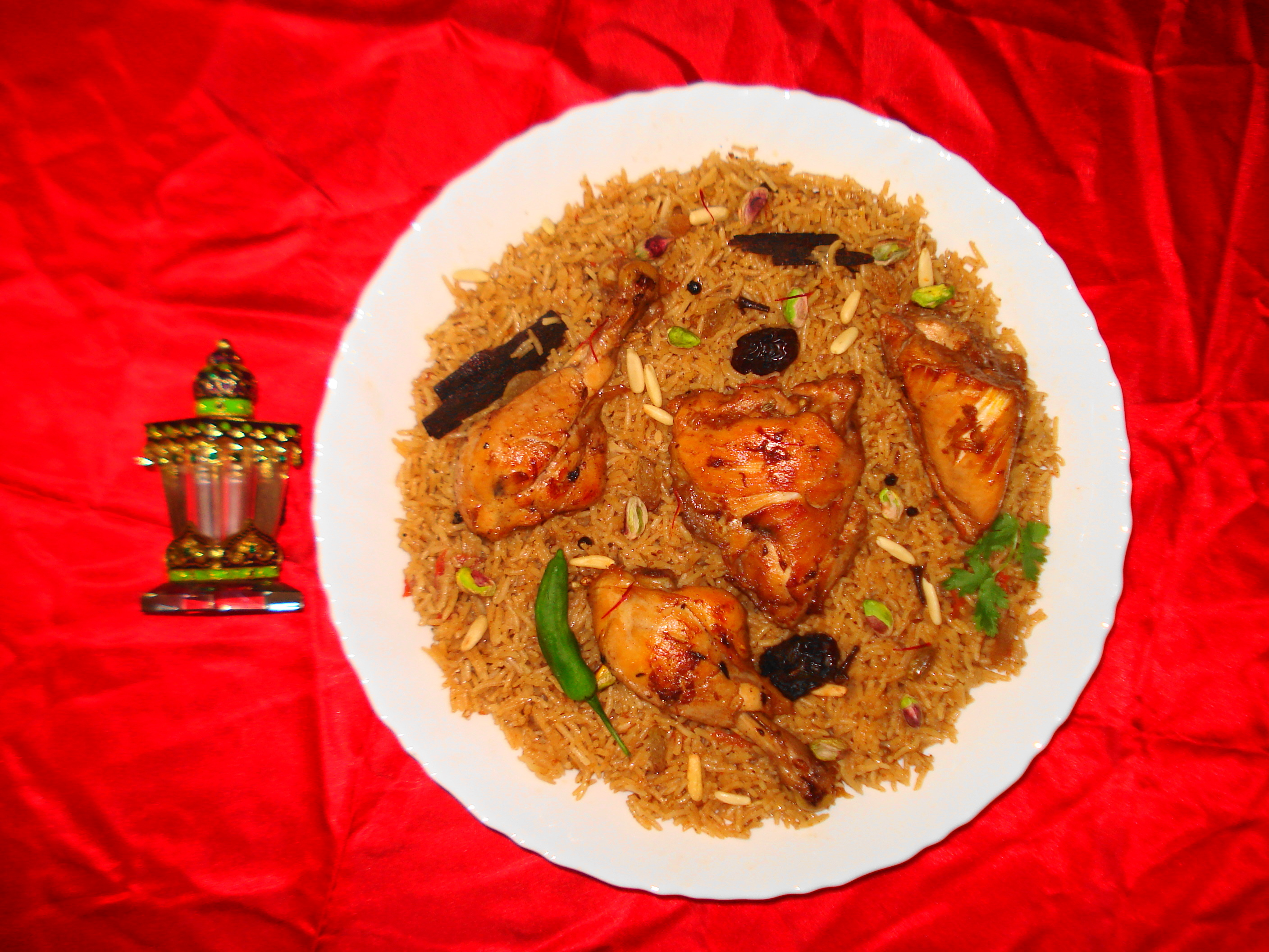 Machboos/ Machbus / Makboos مكبوس, Dish popular in Kuwait,Bahrain ,UAE and Qatar